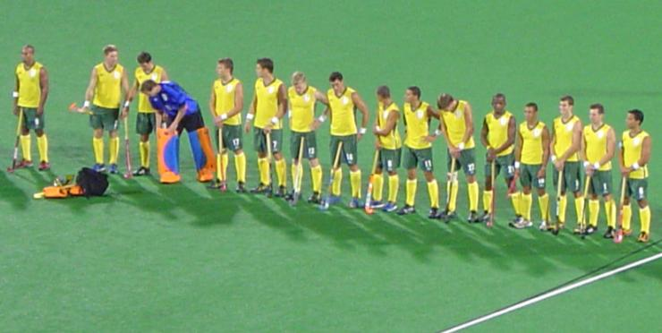 The South African field hockey team at the 2008 Summer Olympics just before the match against Great Britain in the group states. From the left: E. Smith, Symons, McDade, Hibbert, Abbott, Gallagher, Blake, Rose-Innes, Harper, Abrahams, Hammond, Tsolekile, Bam, A. Smith, Cronje, Jacobs